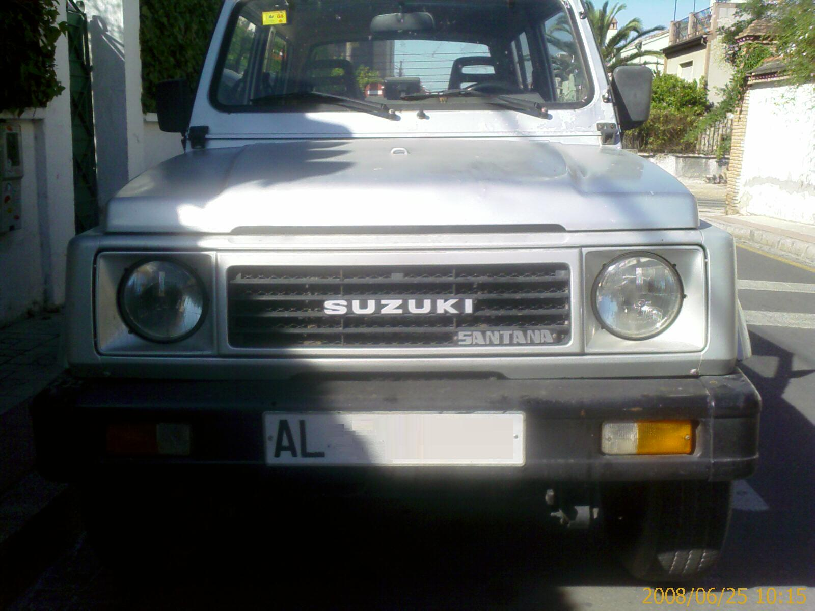 Shown photo is a under license produced Suzuki SJ 413 from Santana Motors in Spain